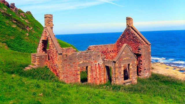 The ruin of the old fishery cottage overlooking the North Sea at Lamberton Skerrs on the south-east coast of Scotland.